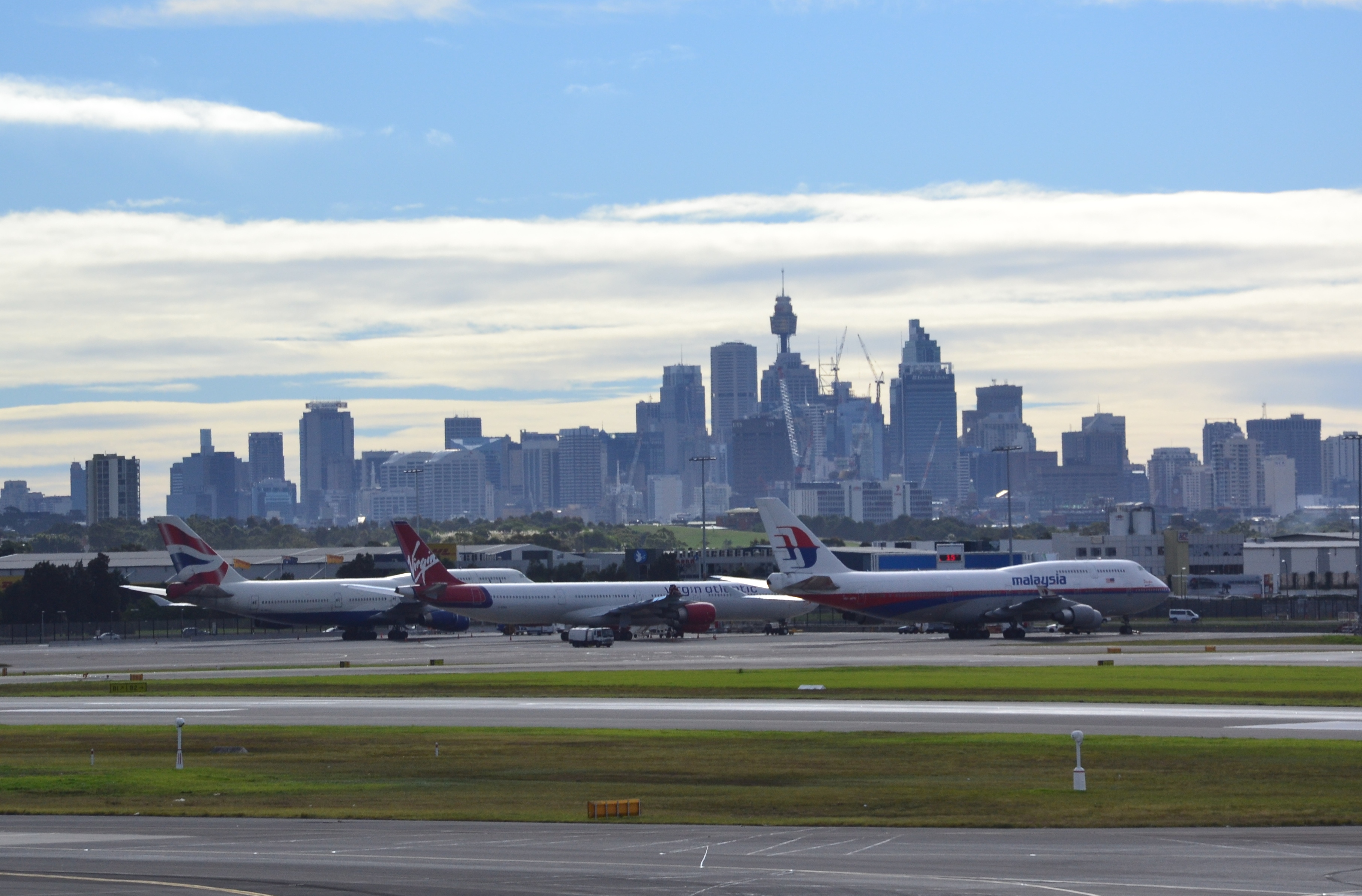 BA, VS & MH aircraft parked at the QF Jetbase in Sydney waiting for their afternoon flights.